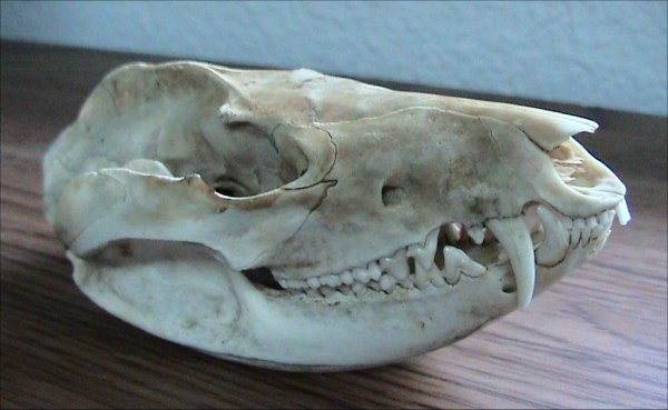 Virginia Opossum (Didelphis virginiana) skull.